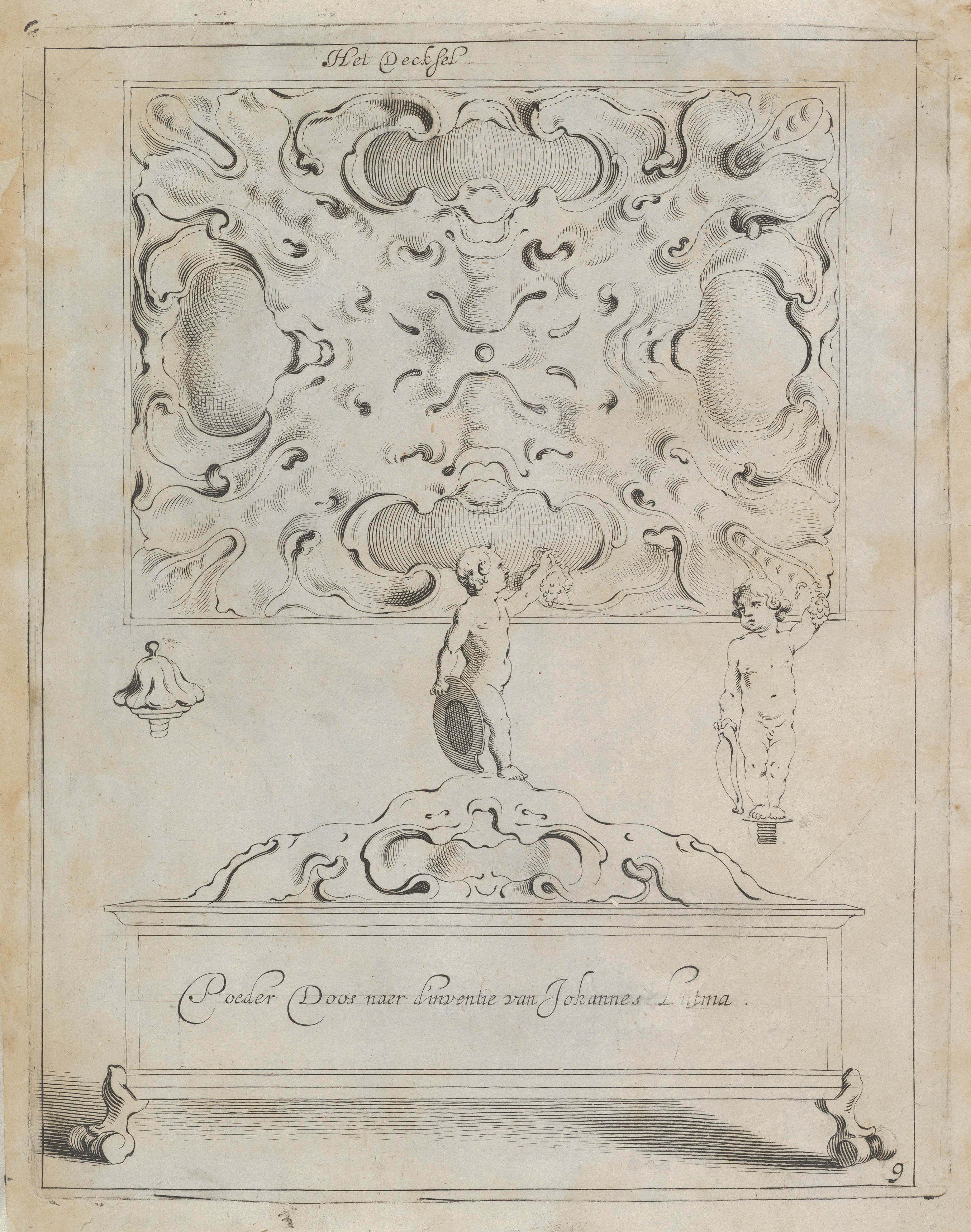 Albums Prints Ornament & Architecture; Albums